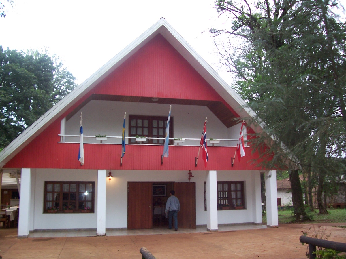 Picture of the Nordic House, in the Park of the Nations, within the framework of XXVI the National Immigrant's Festival, in Oberá, Misiones, Argentina.